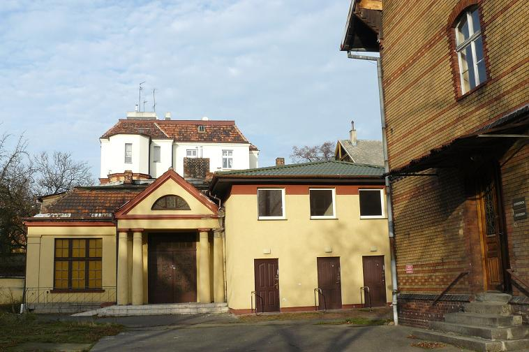 Poznan, Kaiser Wilhelm Anlage, ul. Orzeszkowej